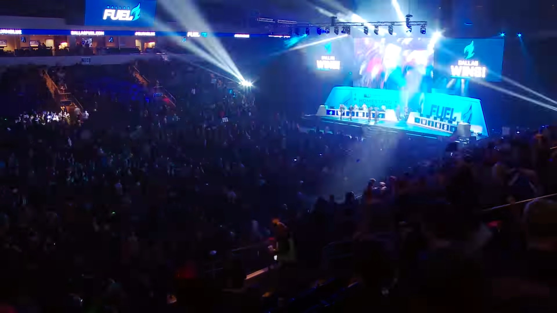 Overview shot of the Dallas Fuel Homestand at the Allen Event Center in Allen, Texas. Screenshot with logo removed.